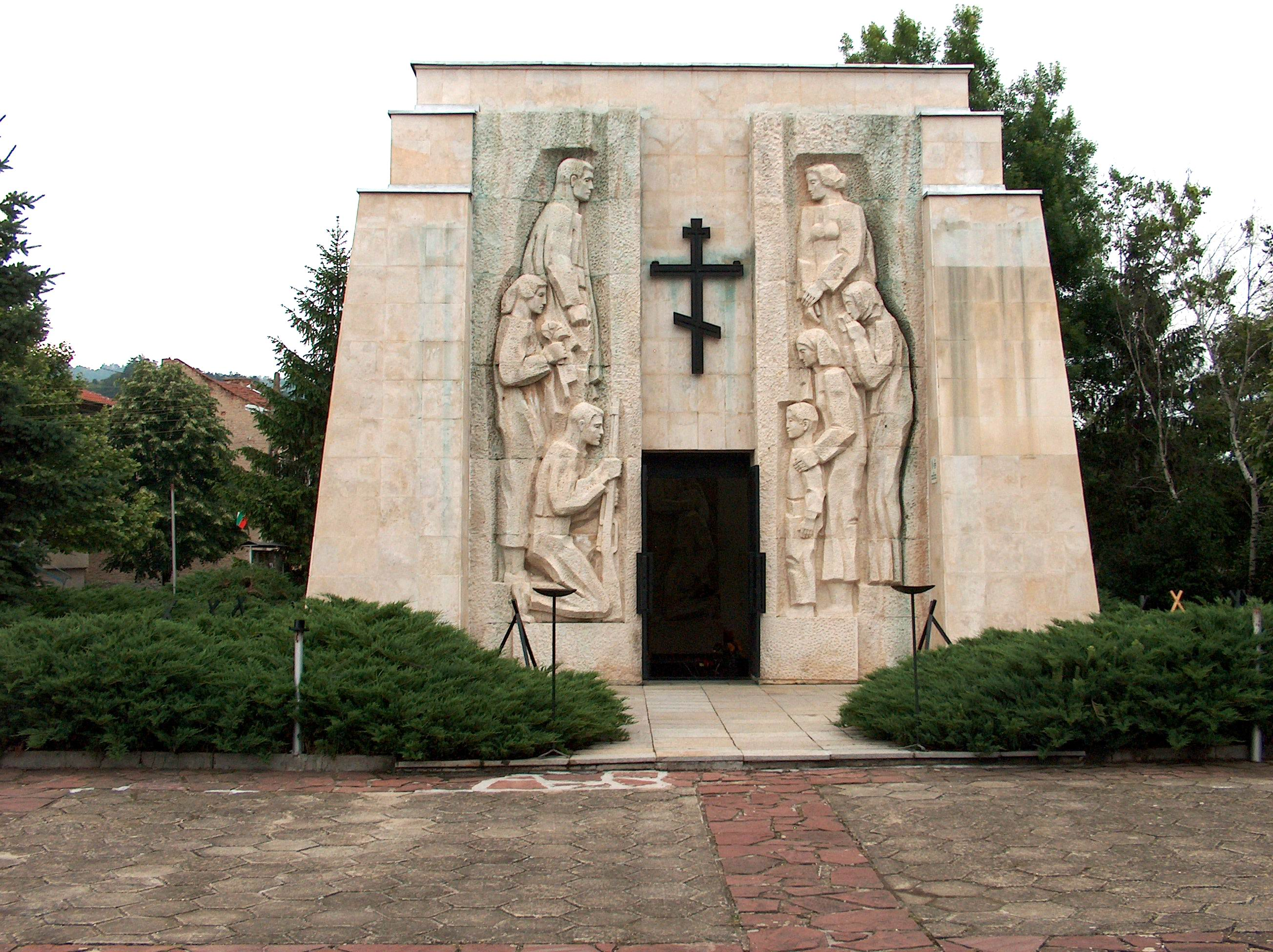 s.skravena.pam.kostnica.